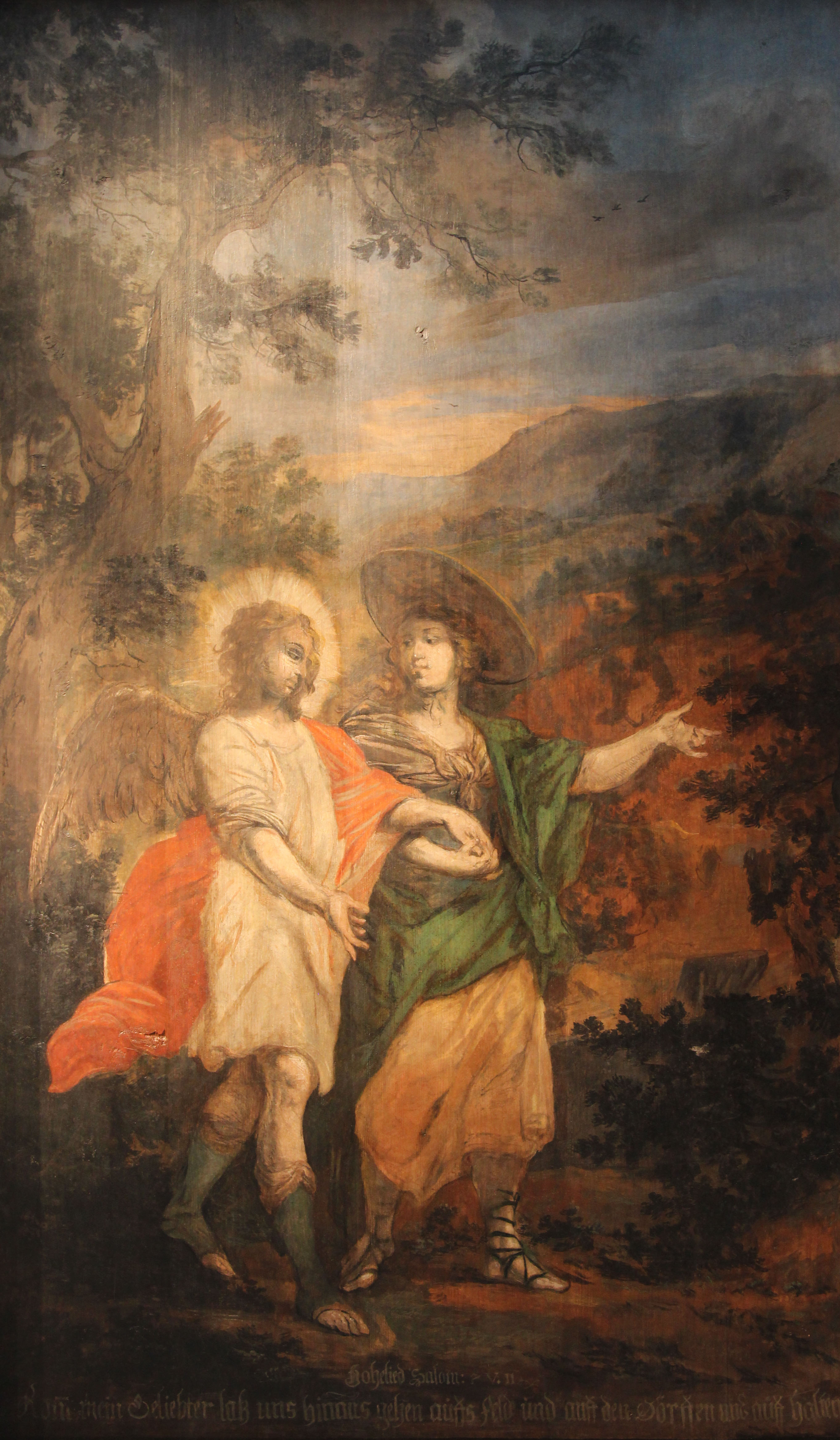 Michael Willman The Bridegroom Leading the Bride (circa 1700) from National Support Center for Agriculture, Regional Office in Wroclaw (originally in palace of the abbots of Lubiąż Abbey in Moczydlnica Klasztorna).